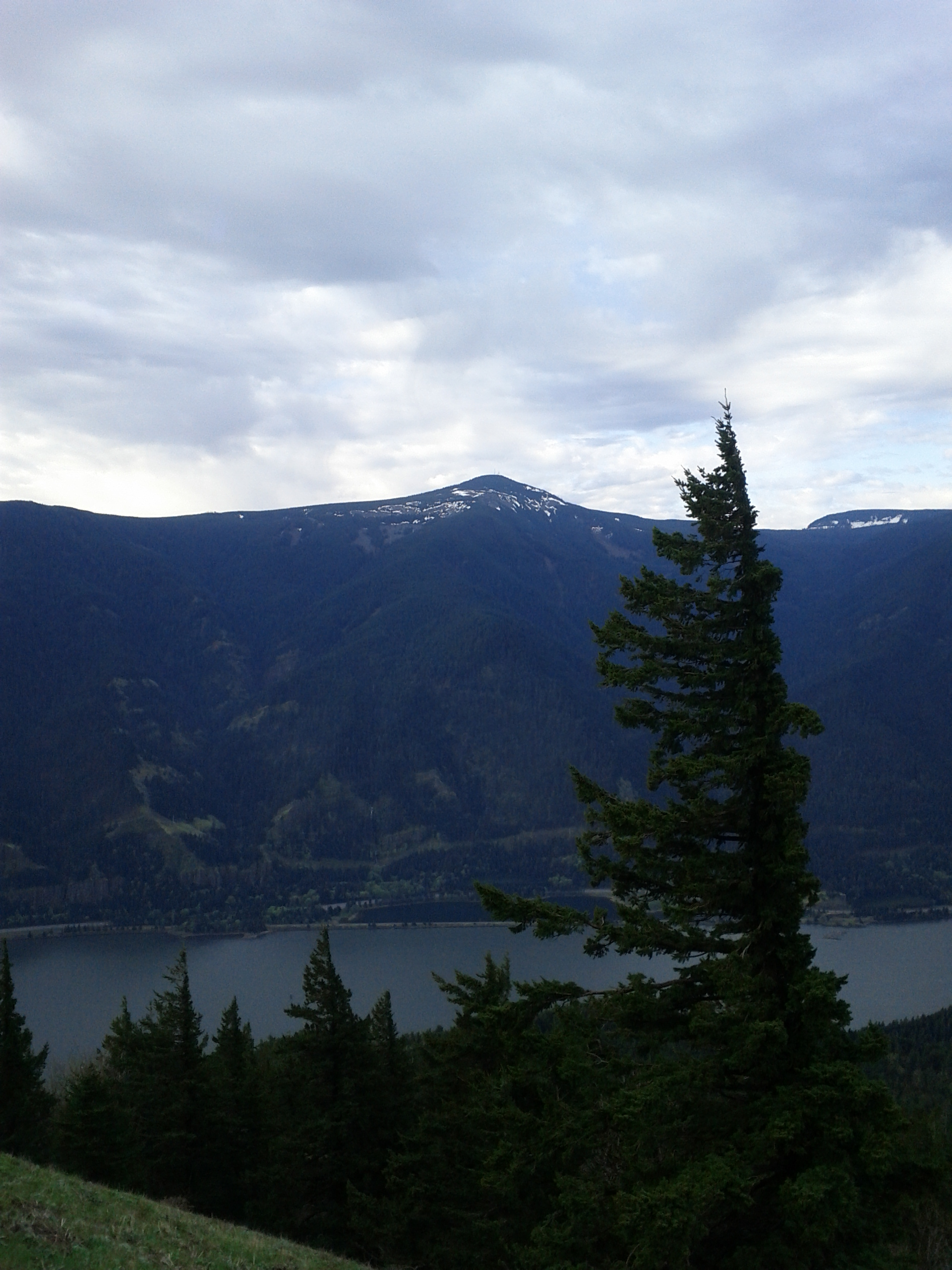 Mount Defiance as seen from Dog Mountain trail